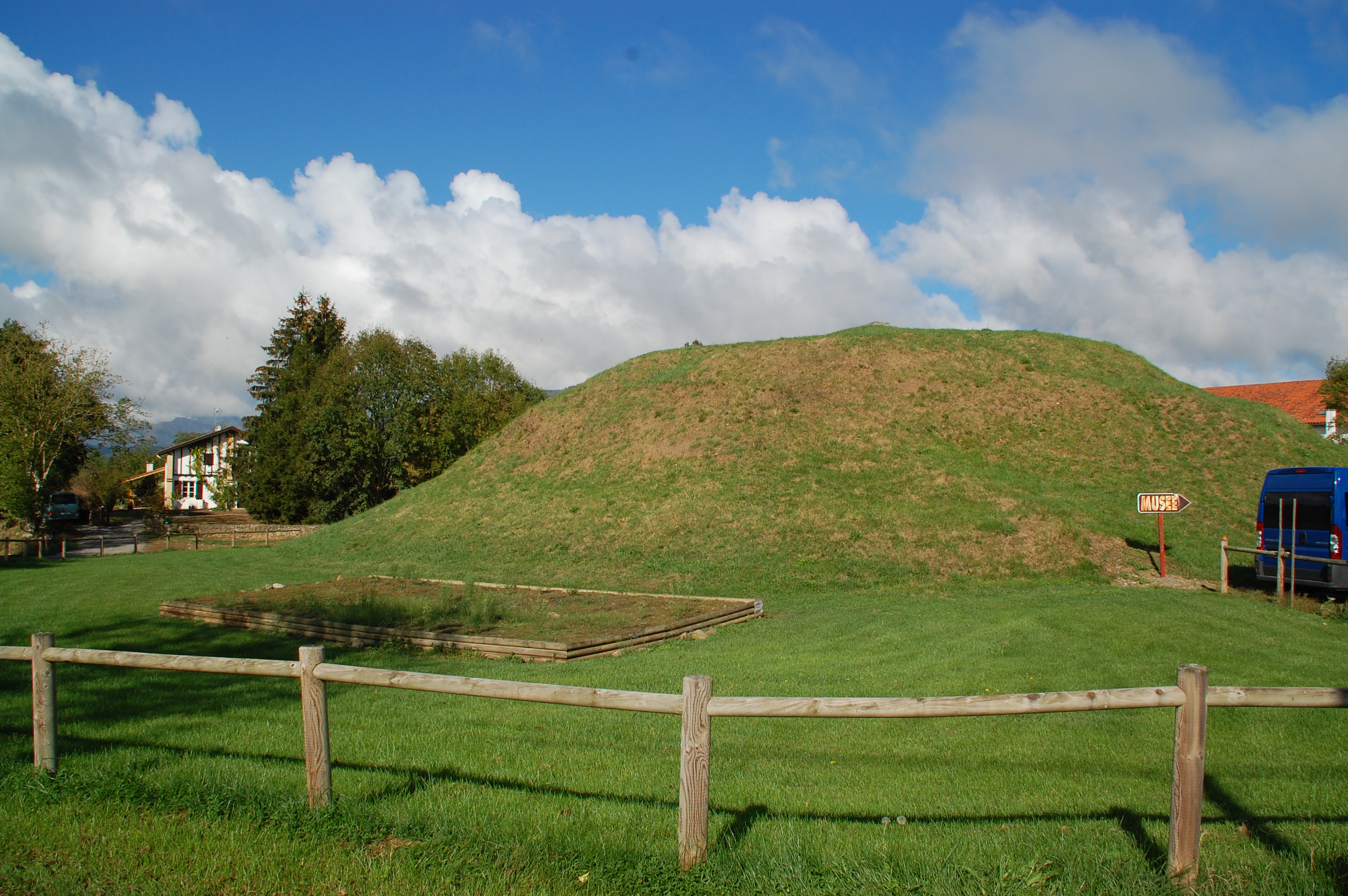 Motte castrale.